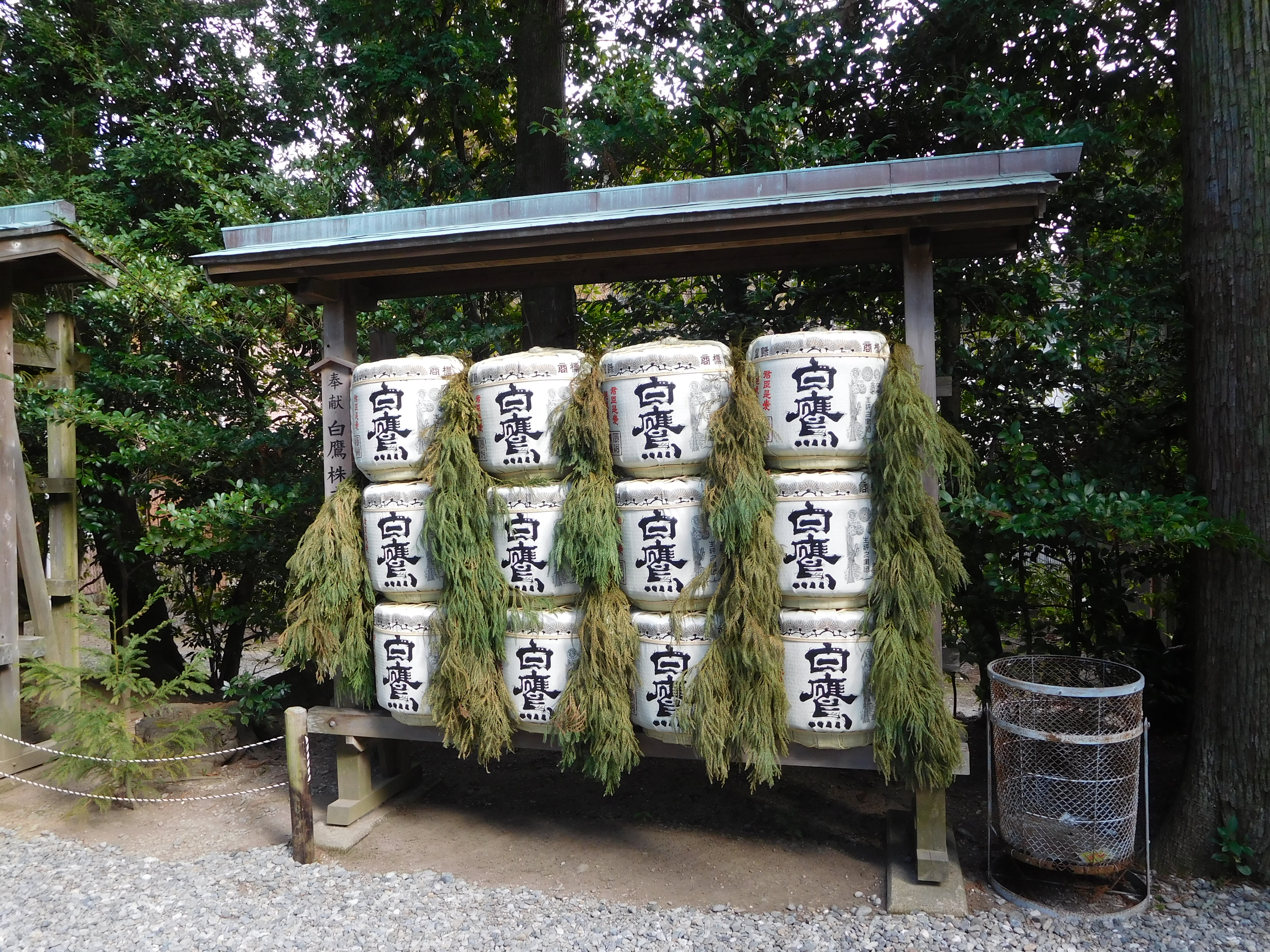 These are Hakutaka Sake barrels at Sarutahiko Shrine, Ise, Mie, Japan.